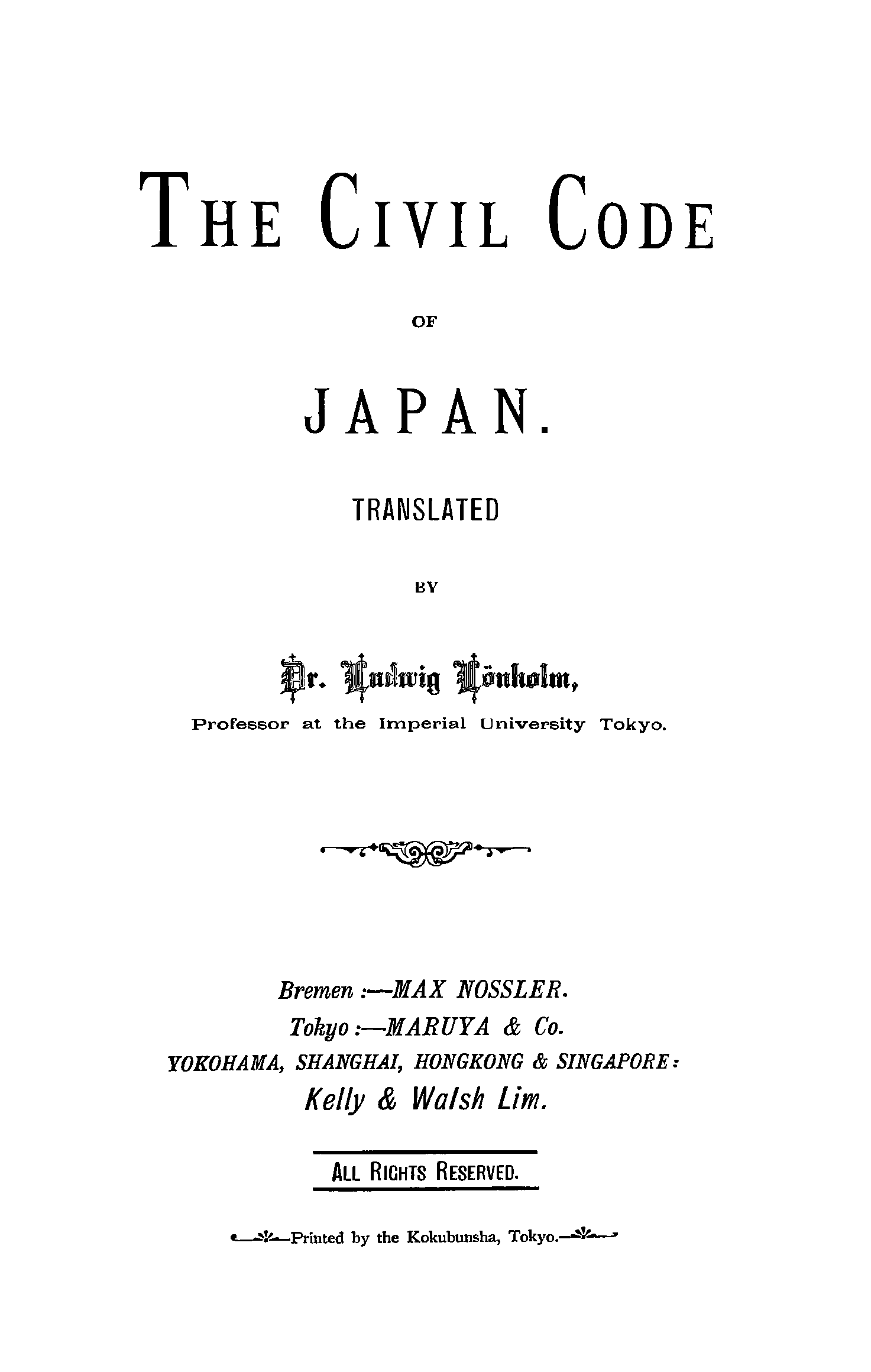 The Civil Code of Japan